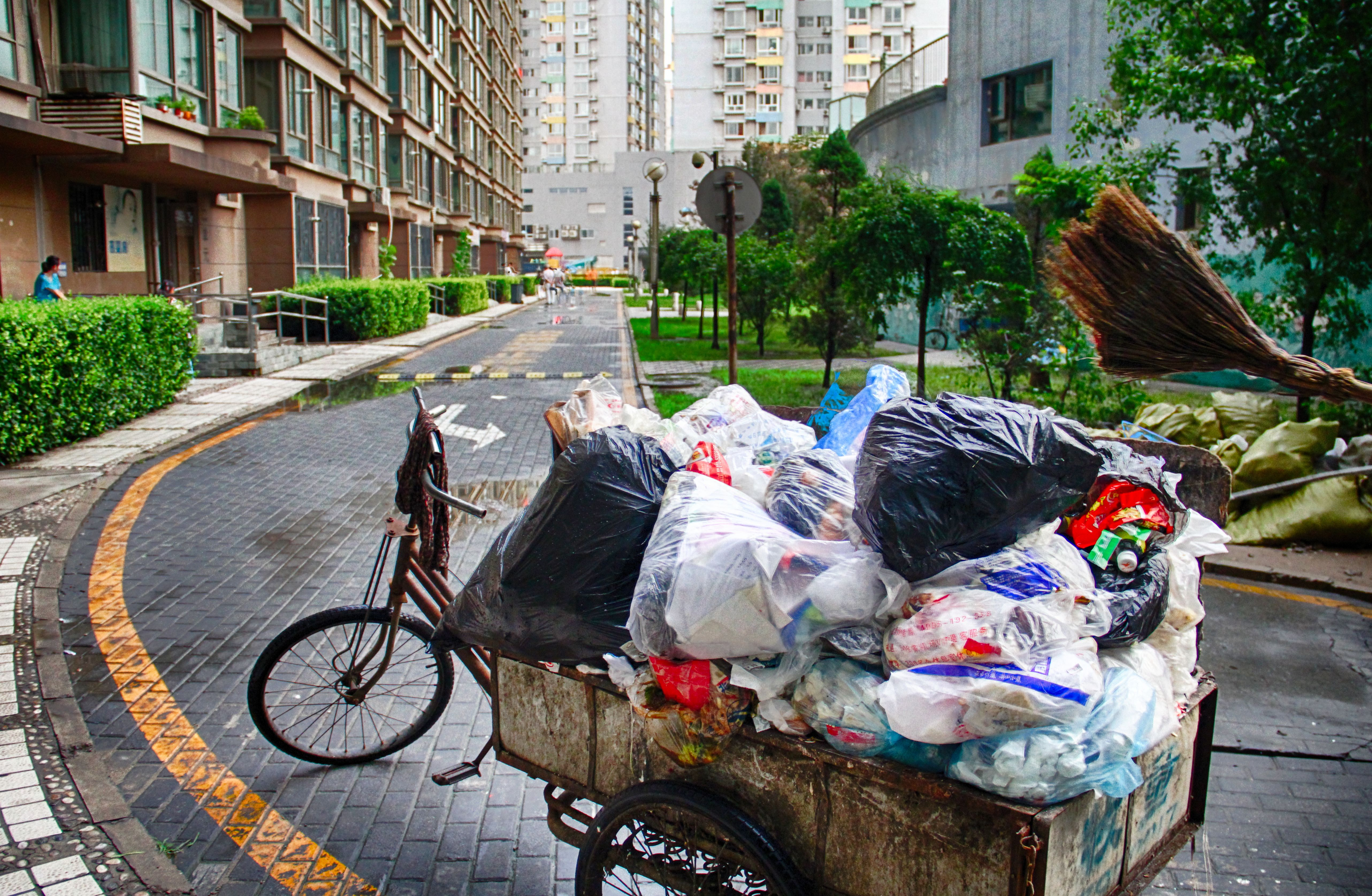 Taken in Tongzhou, Beijing. Merged in HDR.